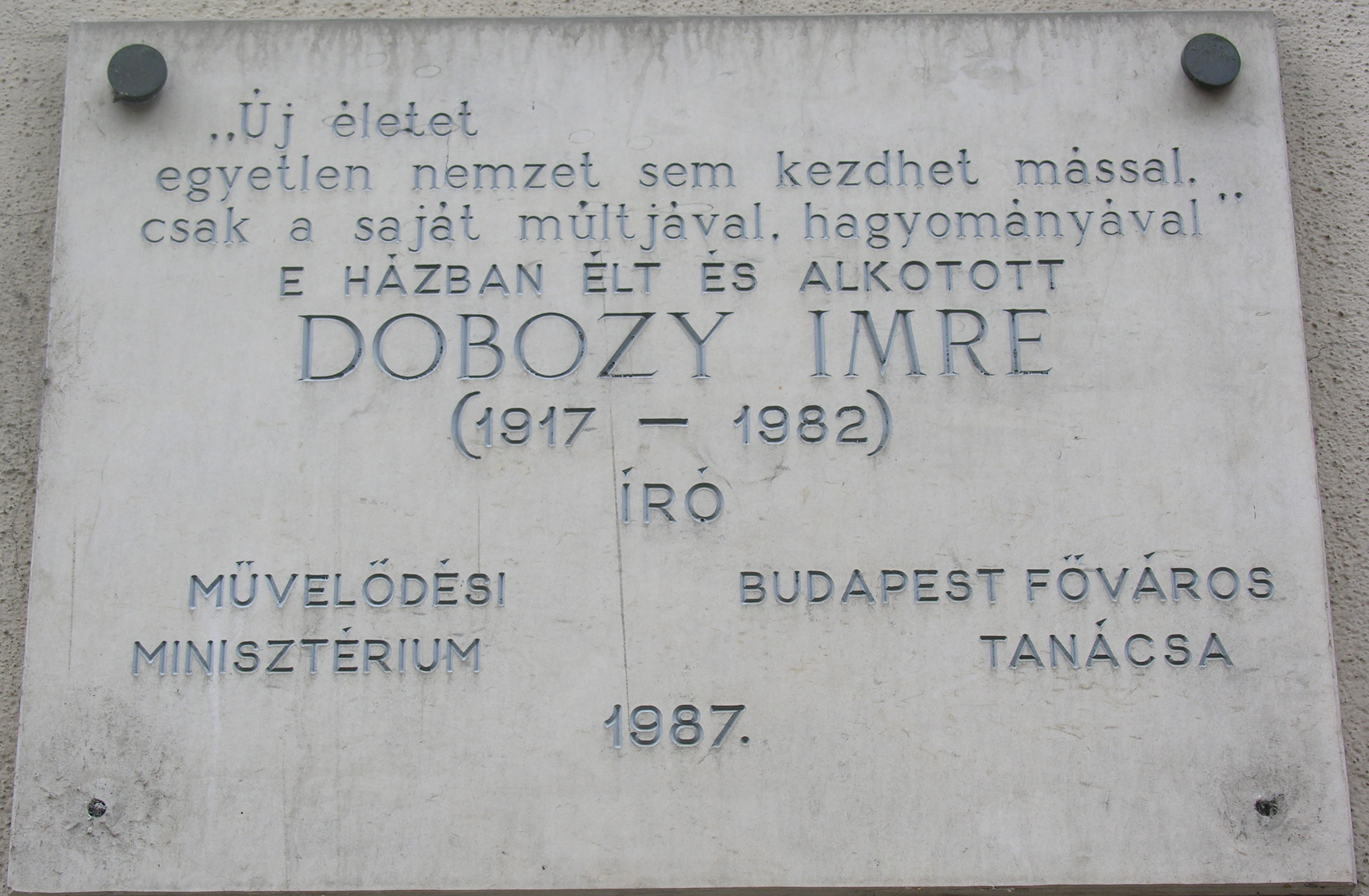 Commemorative plaque of Imre Dobozy in Budapest District XIII, Szent István Park No 15